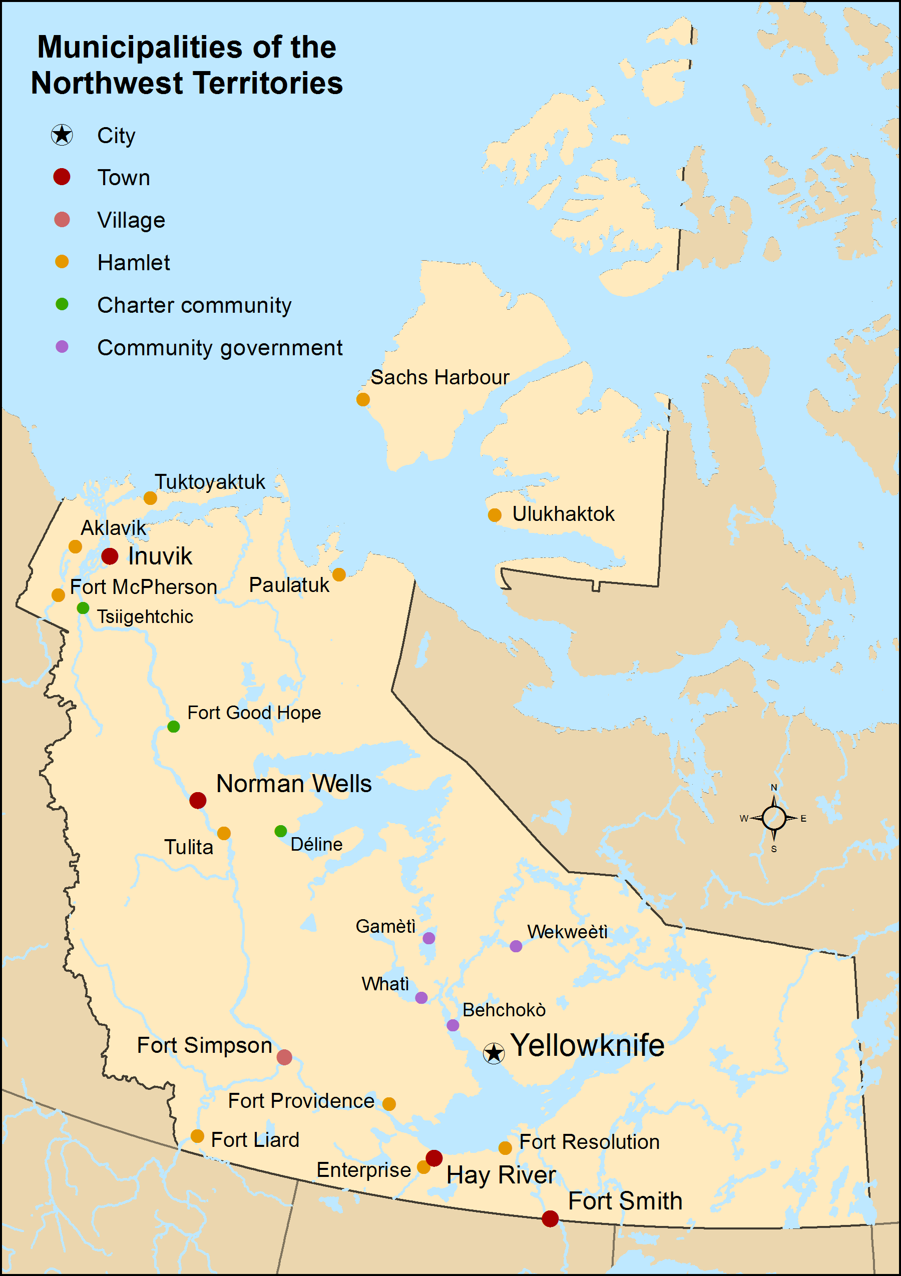 Municipalities of the Northwest Territories as of 2013